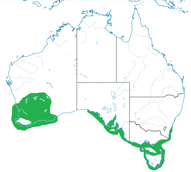 Range map of Thinornis rubricollis (Thinornis cucullatus, Hooded Plover, Hooded Dotterel).